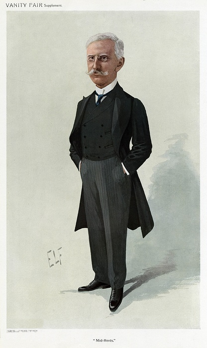 Men of the Day No.1205: Caricature of Col EH Carlile MP. Caption reads: "Mid Herts"